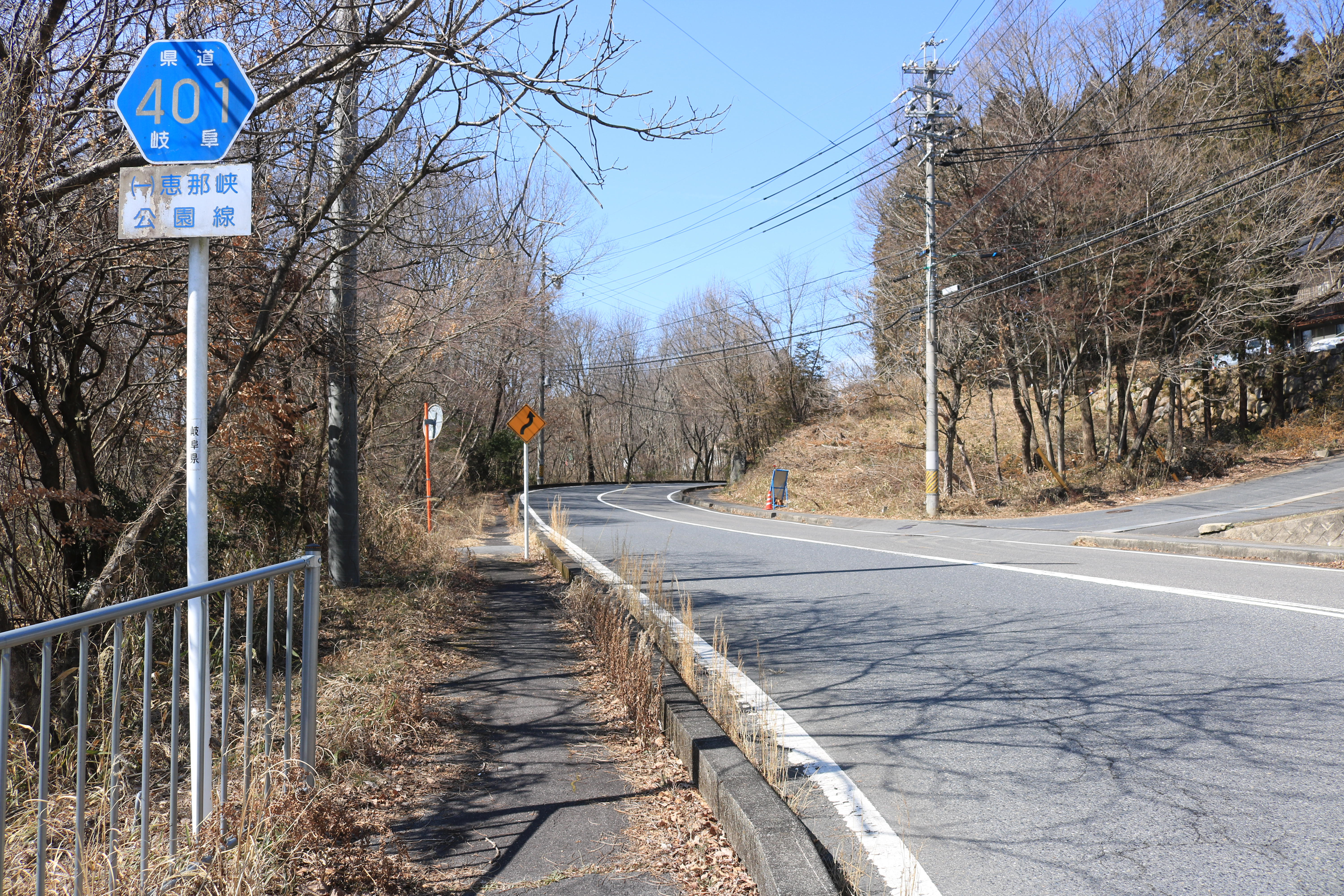 Gifu Prefectural Road Route 401 in Oi, Ena, Gifu prefecture, Japan.